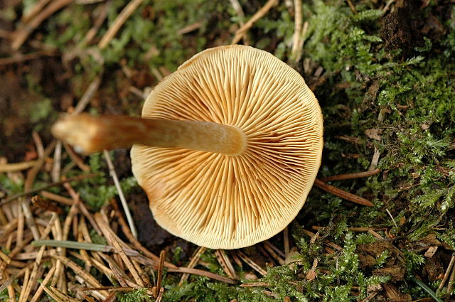 Hypholoma fasciculare from Commanster, Belgium. If you think this is a different taxon, please contact James Lindsey.